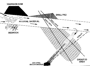 Schematic of drilling for a grout curtain. (Caption: "Figure 3. Cross-section of grouting demonstration project." (Butte Mine Waste Technology Program, Montana Tech)).